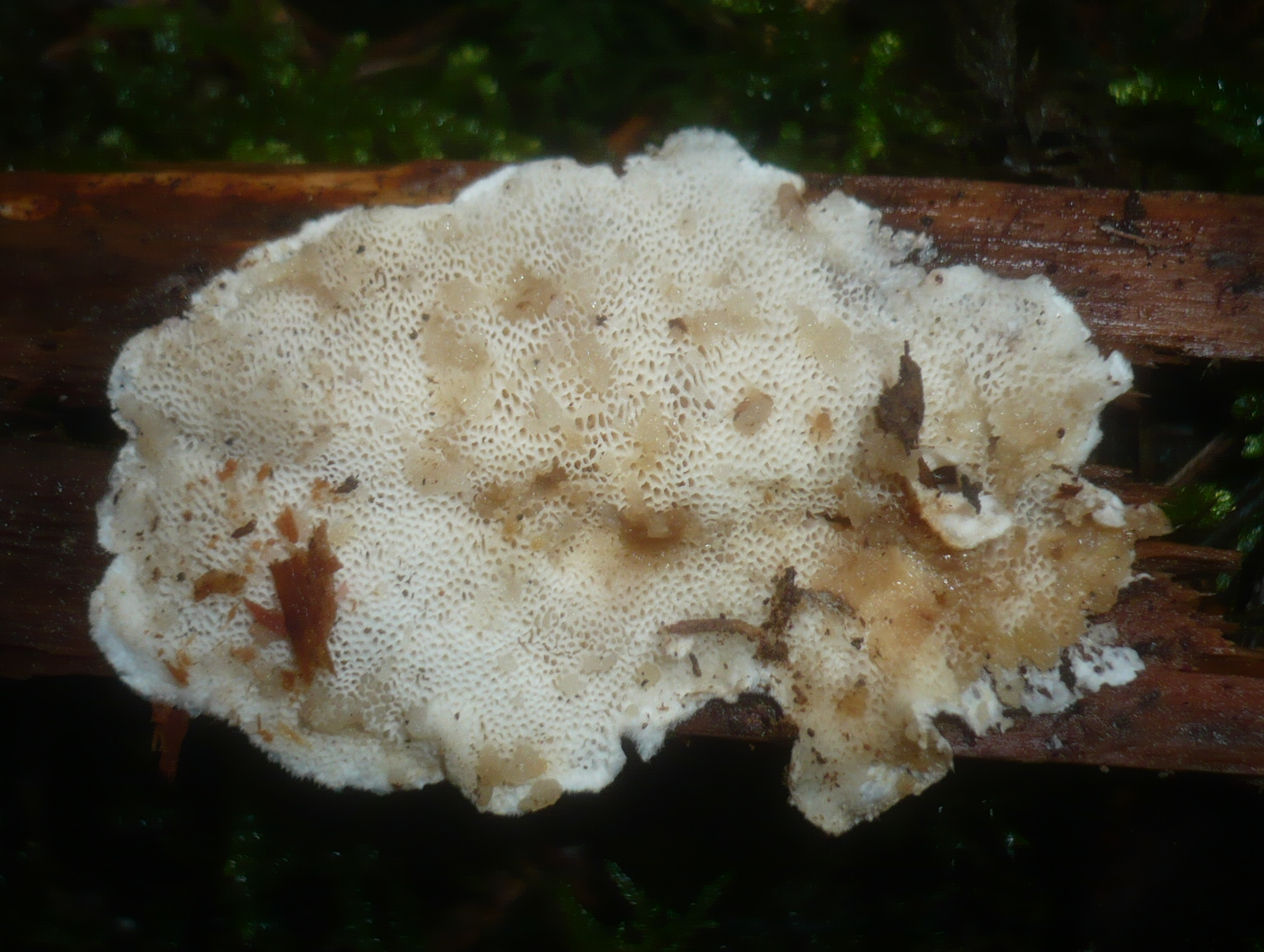 Tremella polyporina Reid Image location: La Rixouse, Les Pres de la Rixouse, Jura, France a seemingly very rare Tremella species parasitizing on polypores Recognized by sight: on fruitbodies of Cinereomyces lindbladii growing on fir; leg.DÃ¤mmrich Used references Based on microscopic features For more information about this, see the observation page at Mushroom Observer.